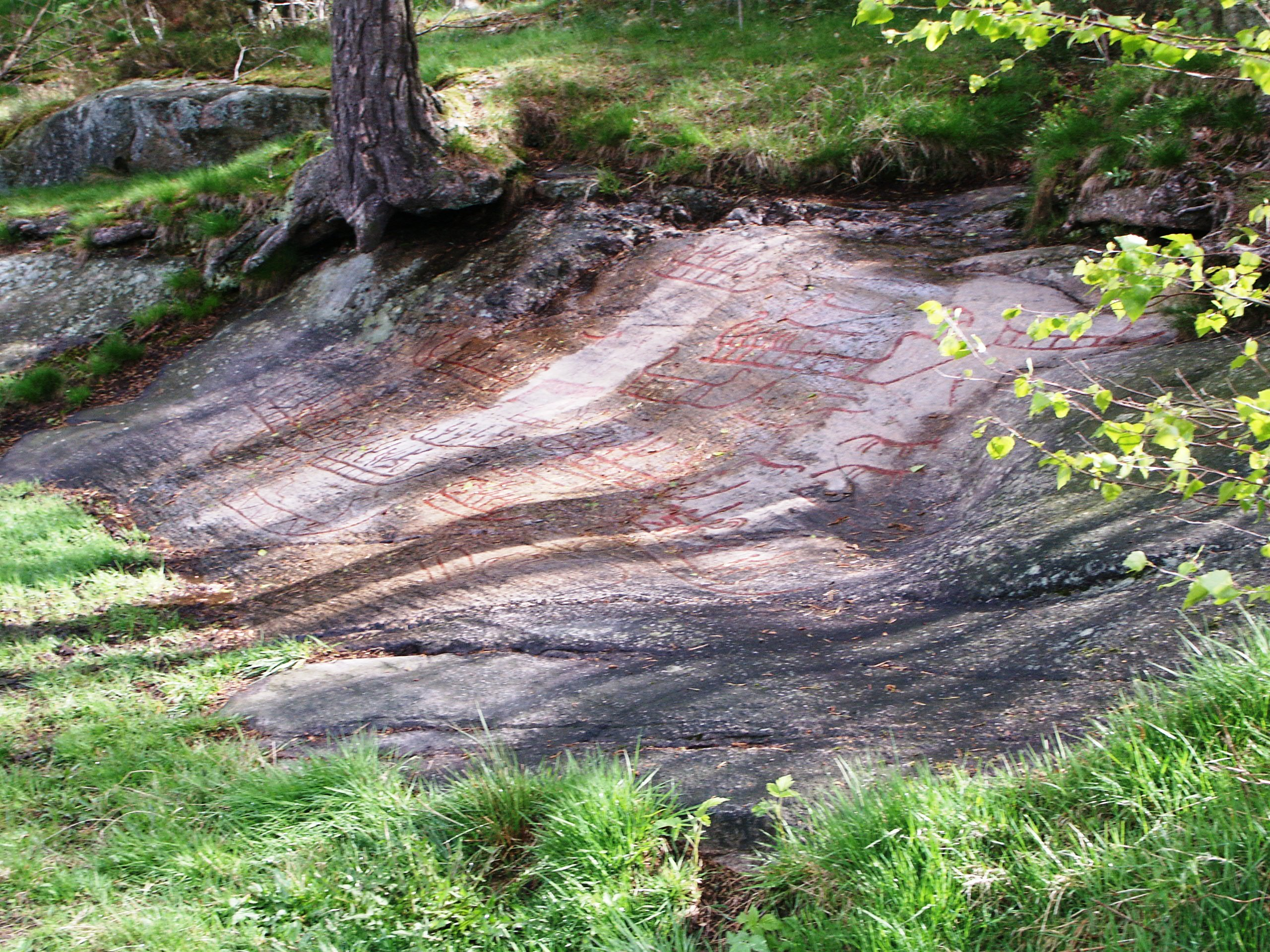 Rock carvings at Kalnes, Sarpsborg